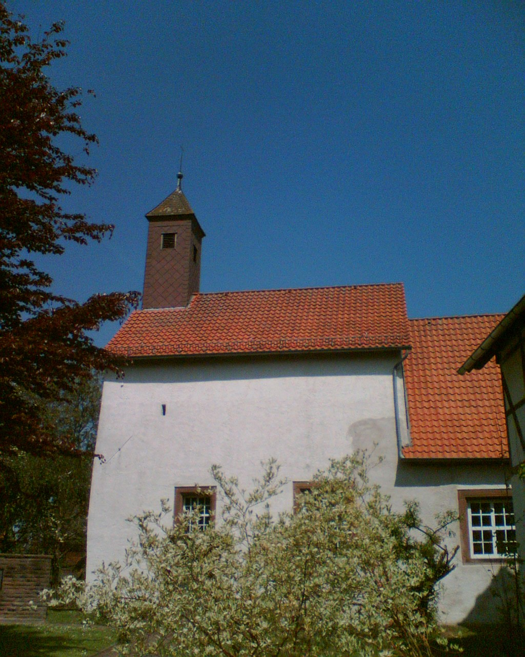 chapel in Eilensen, Germany